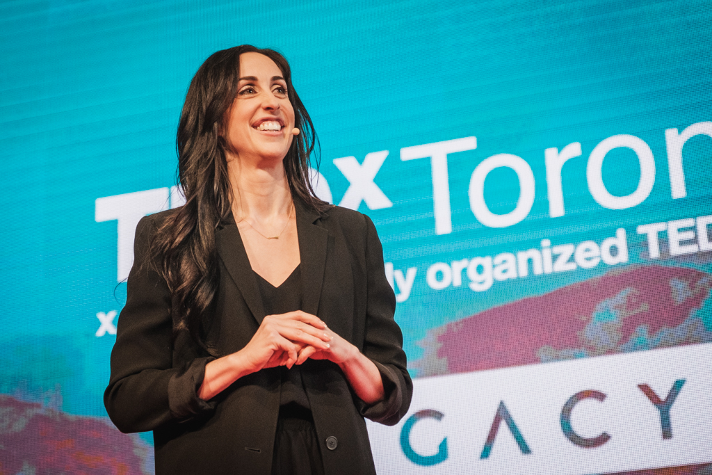 Catherine Reitman in 2017